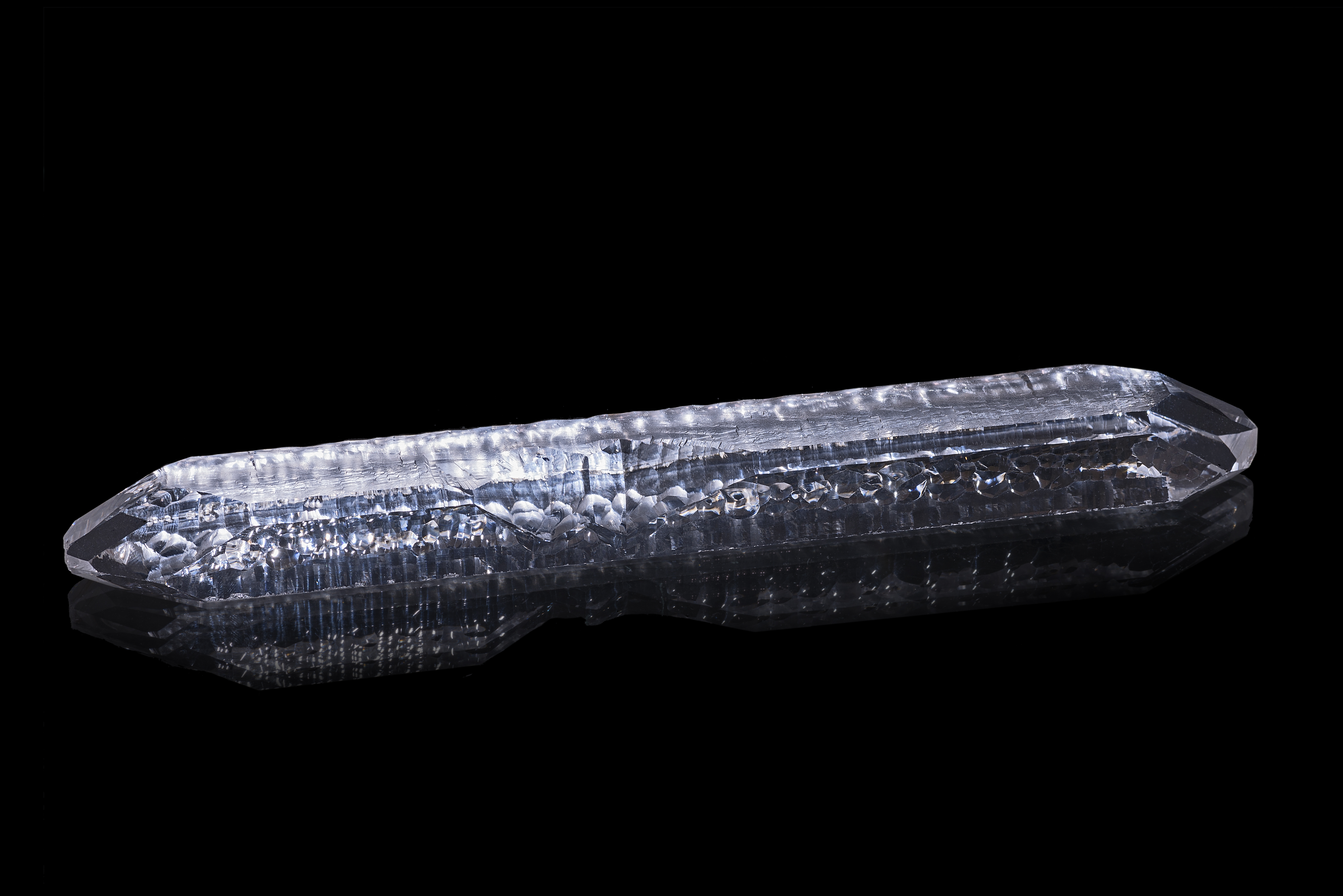 A single-crystal quartz bar artificially grown by the hydrothermal method. Size : 19.2 x 2.8 cm